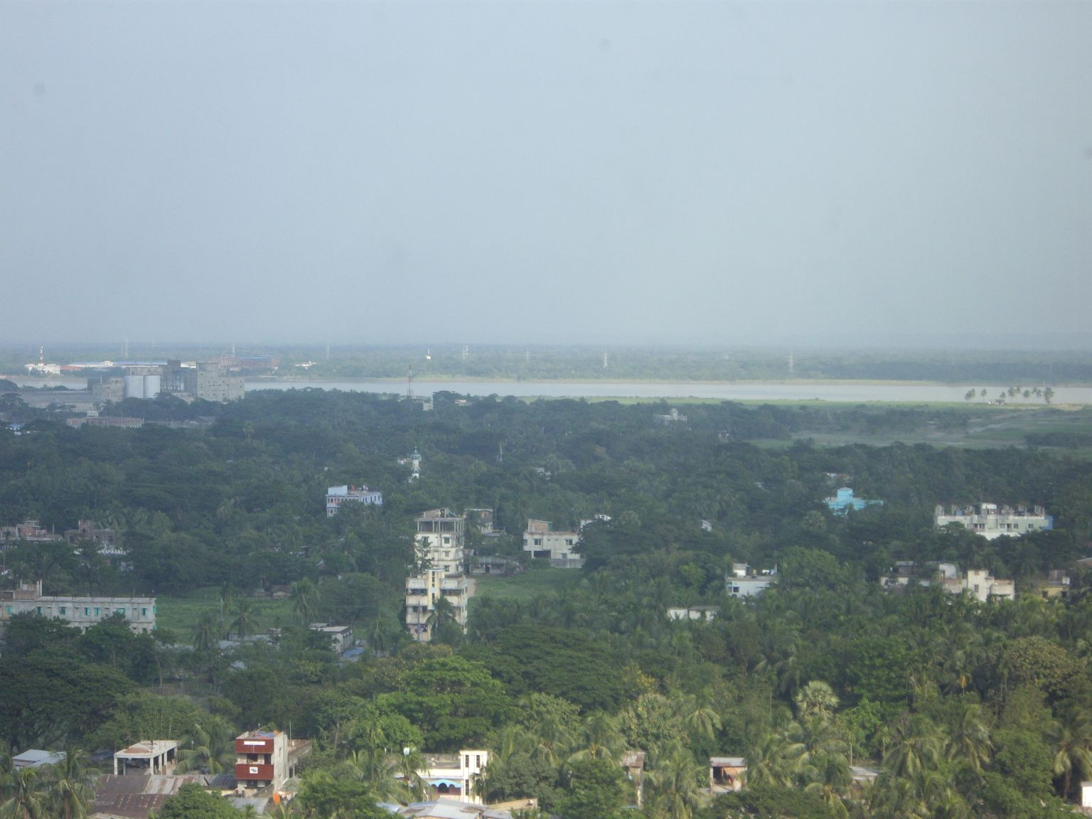 Veiw of Chittagong from Revolving Restaurent, Changao, Chittagong, Bangladesh.